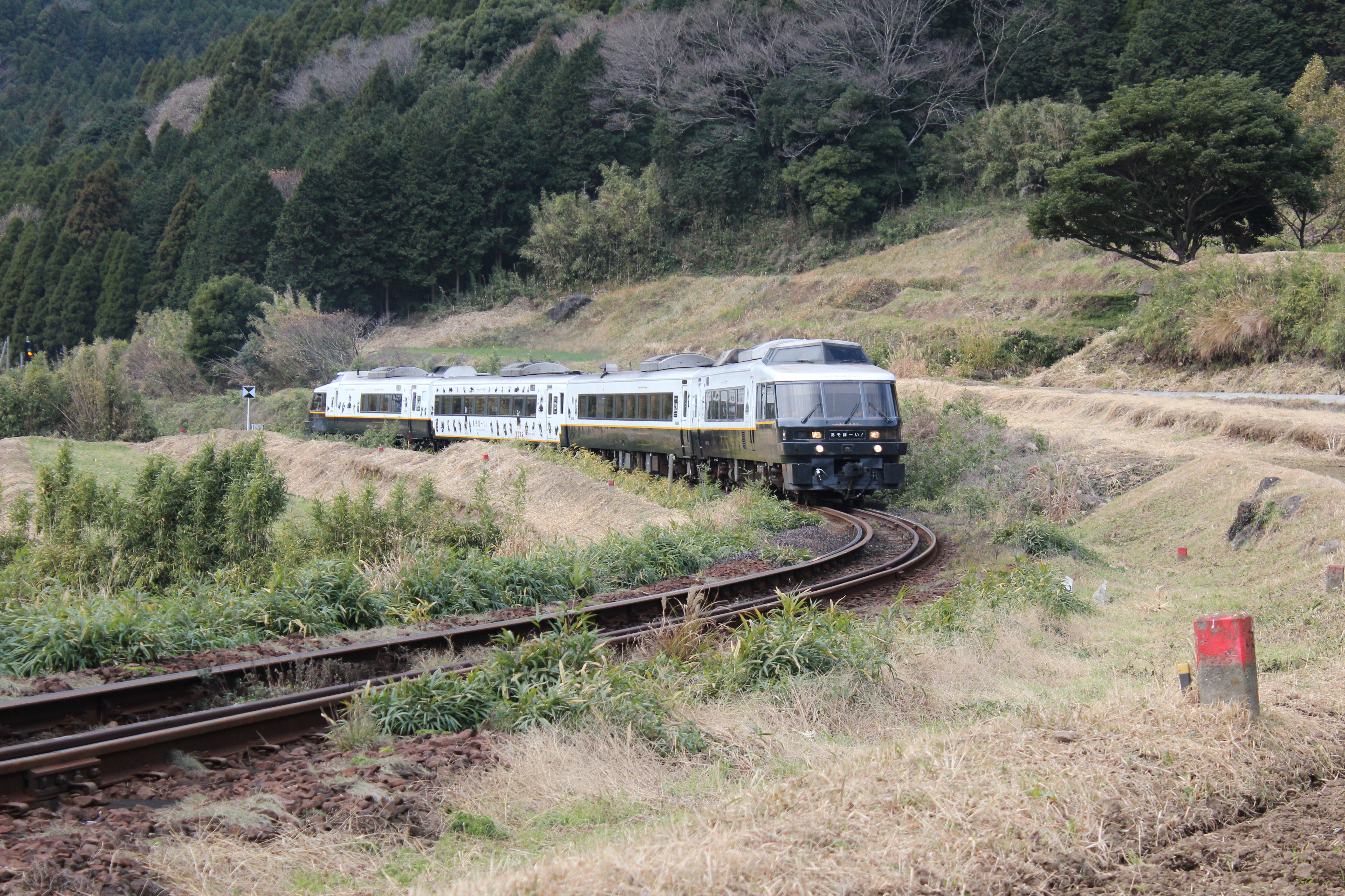 JR Kyushu KiHa 183-1000 series Aso Boy diesel multiple unit trainset